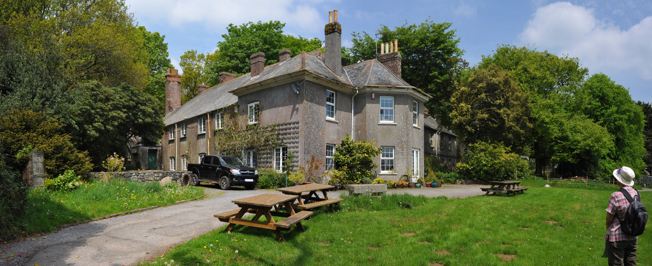 The house at Dartmoor Zoological Park in 2010. The plaque under the trees at the far left reads "ELLIS BOWEN DAW - Born 15th September 1928 - FOUNDER OF DARTMOOR WILDLIFE PARK 29 JUNE 1968 - Here's to those who wish me well and those who don't can go to hell!"